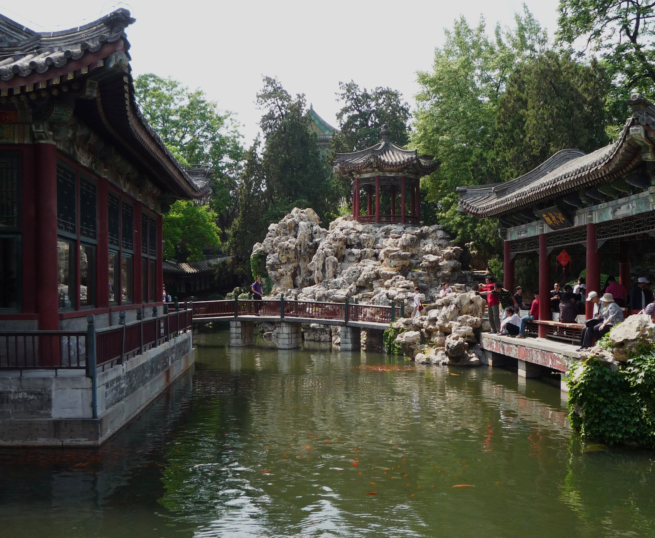 Chinese garden, north of Beihai Park, Beijing, China.